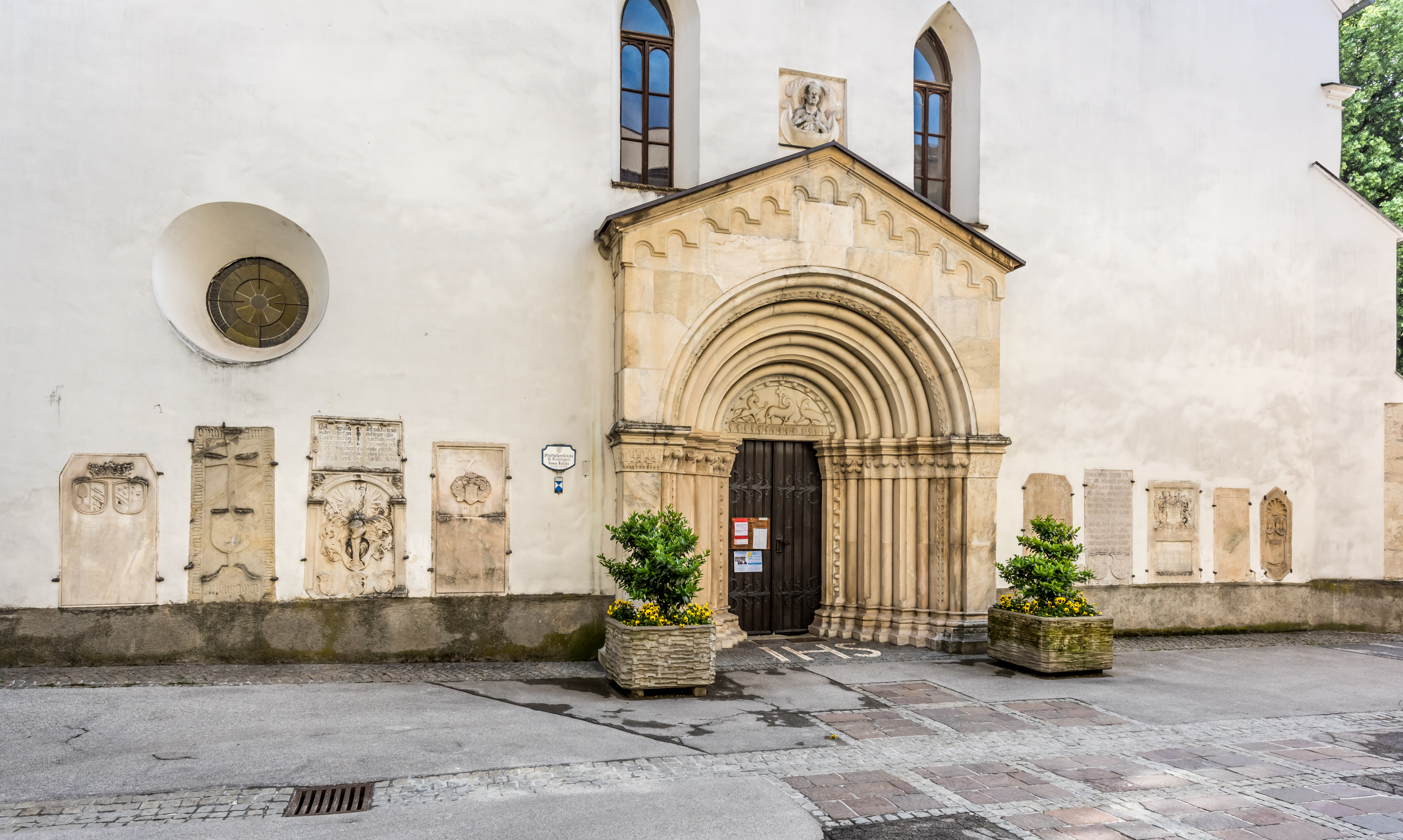 Romanesque western portal of the city parish church holy Trinity on Kirchplatz, municipality St. Veit an der Glan, district Sankt Veit, Carinthia, Austria, EU